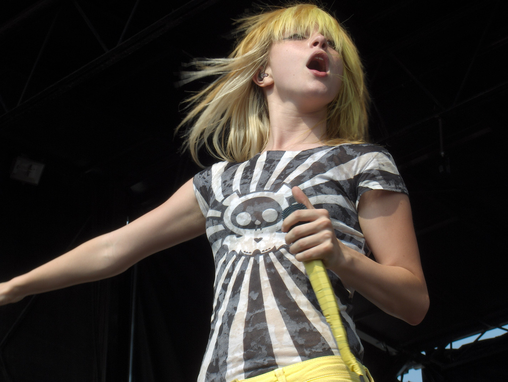 Hayley Williams (Paramore) at Warped Tour 2007.